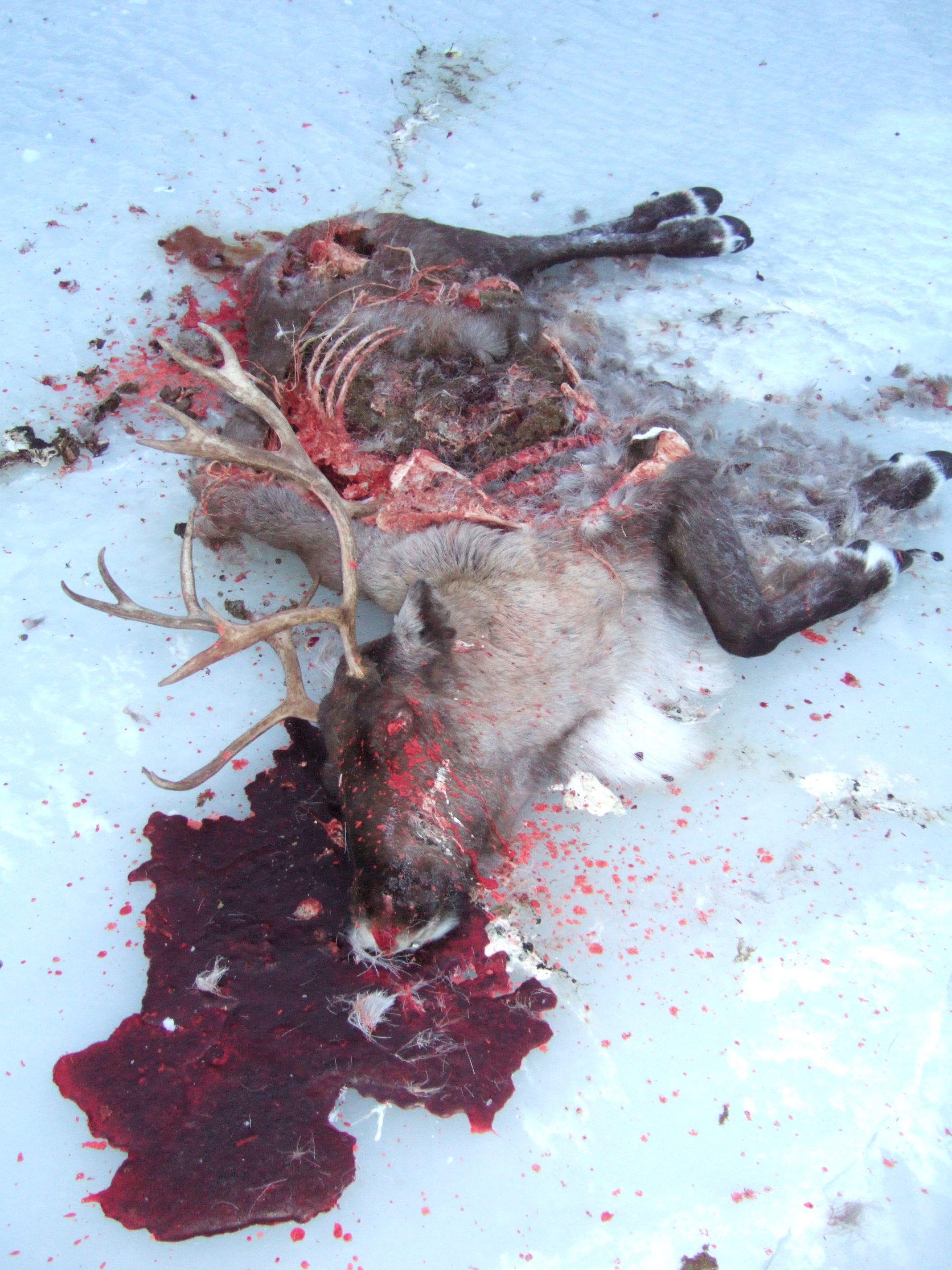 Carrion of a reindeer, Øvrevatnet, Fauske kommune, Norway.